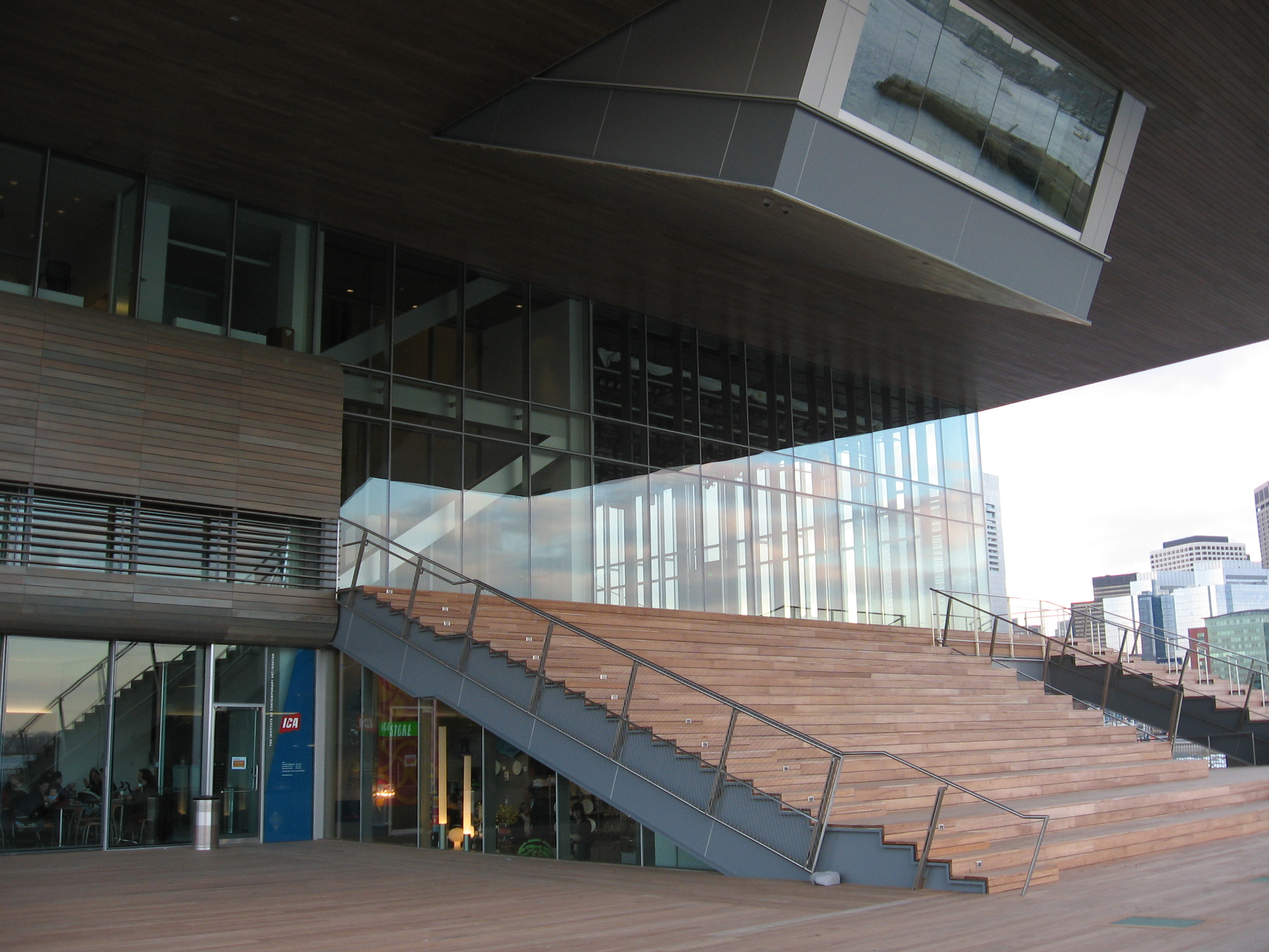 Tight shot of the underside of the front of the Institute of Contemporary Art in Boston, Massachusetts.